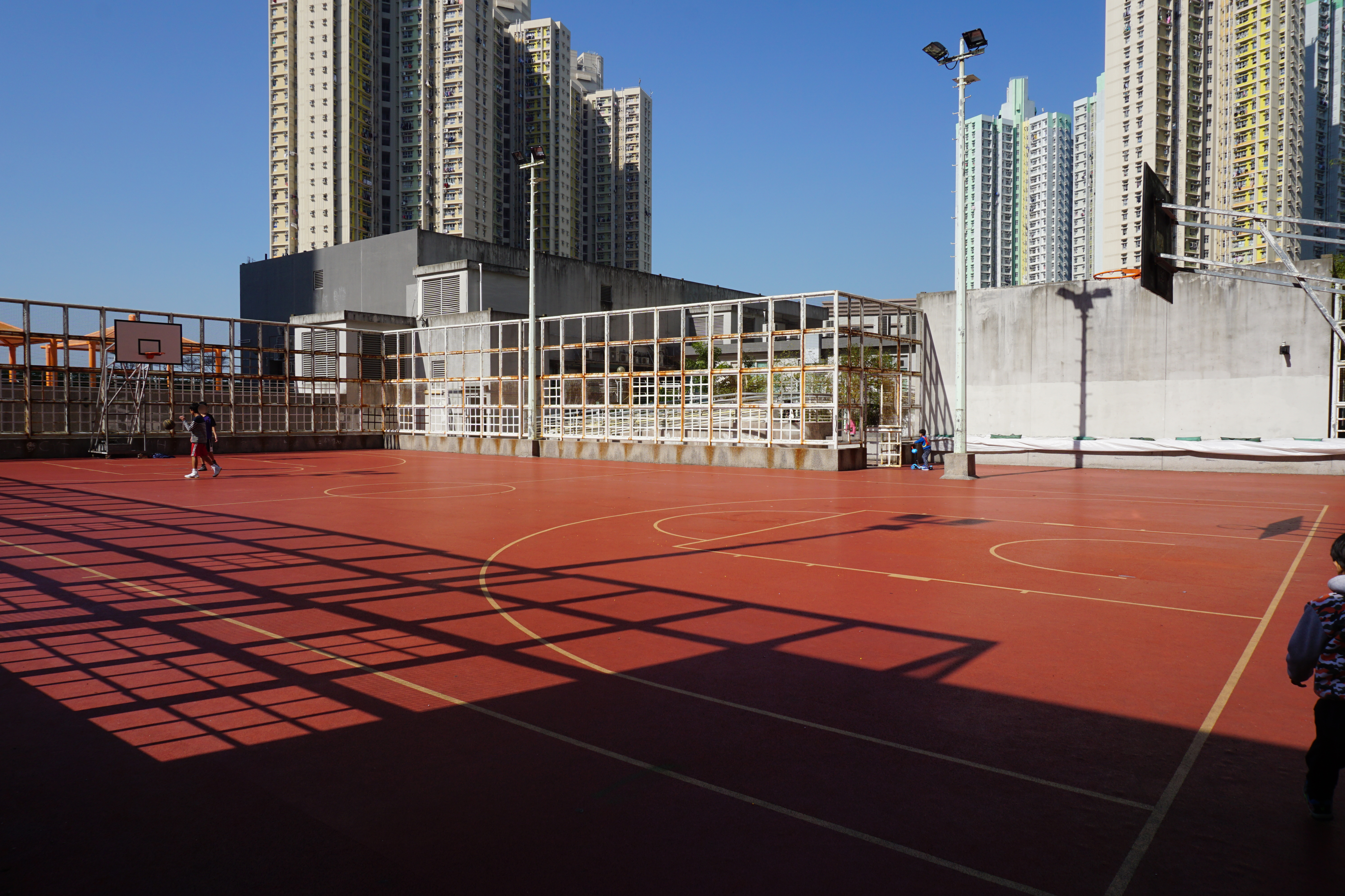 Yat Tung Estate in Tung Chung, Hong Kong.